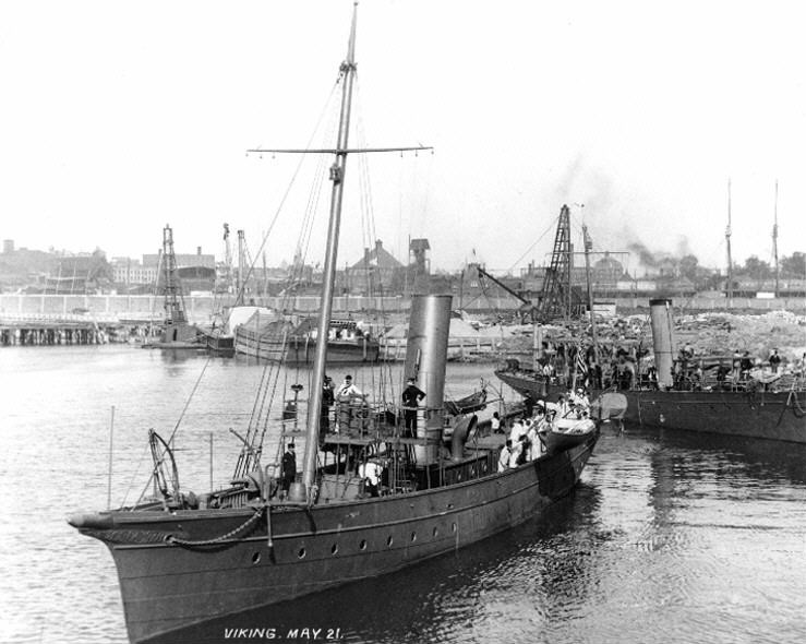 (1898-1899) Off the New York Navy Yard, Brooklyn, New York, after being fitted for naval service, 21 May 1898. Ship in right background is probably USS Aileen (1898-1920), another yacht converted for use in the Spanish-American War. Photograph from the Bureau of Ships Collection in the U.S. National Archives.